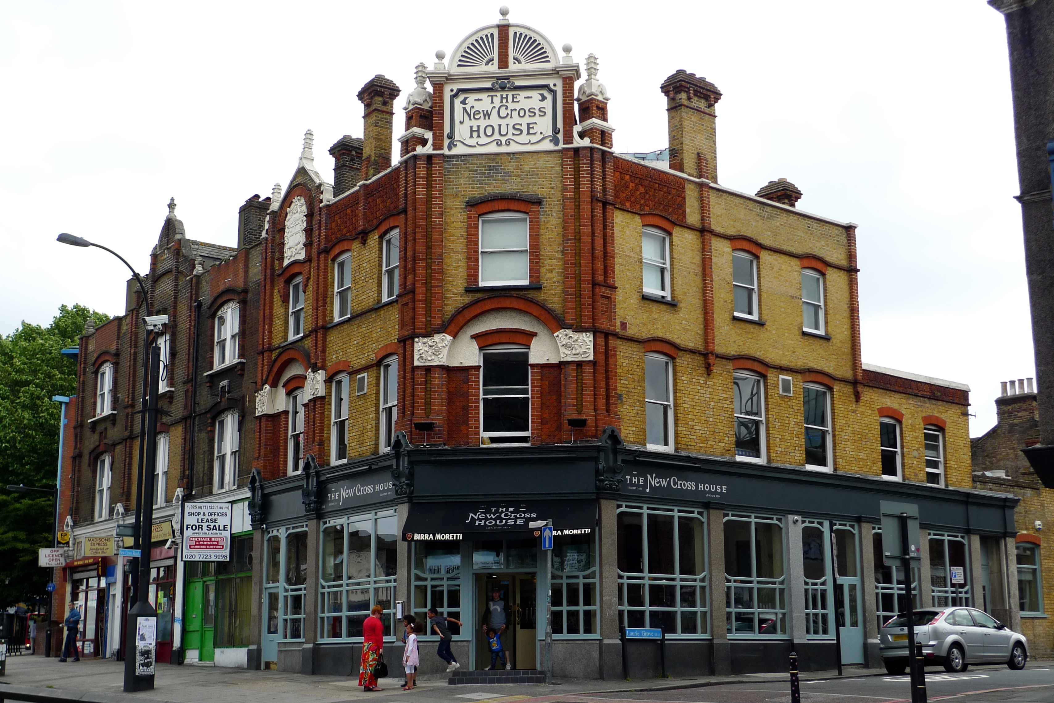 Refitted and returned to its original name by the Capital Pub Co in mid-2011. Prior to the reopening, the pop-up restaurant #MEATEASY was located in the upstairs room. A very spacious place, with more space outside. Photo of menu, May 2011, with links to food photos.) (Photo of it as The Goldsmiths' Tavern.) Address: 316 New Cross Road. Former Name(s): The Goldsmiths' Tavern. Owner: Greene King [Capital Pub Company]; Barter Inns (former). Links: Fancyapint Pubs Galore Beer in the Evening Dead Pubs (history)